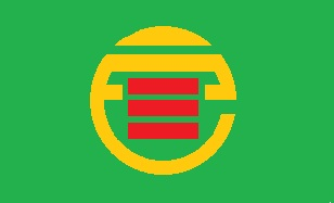 Flag of Sannohe Aomori